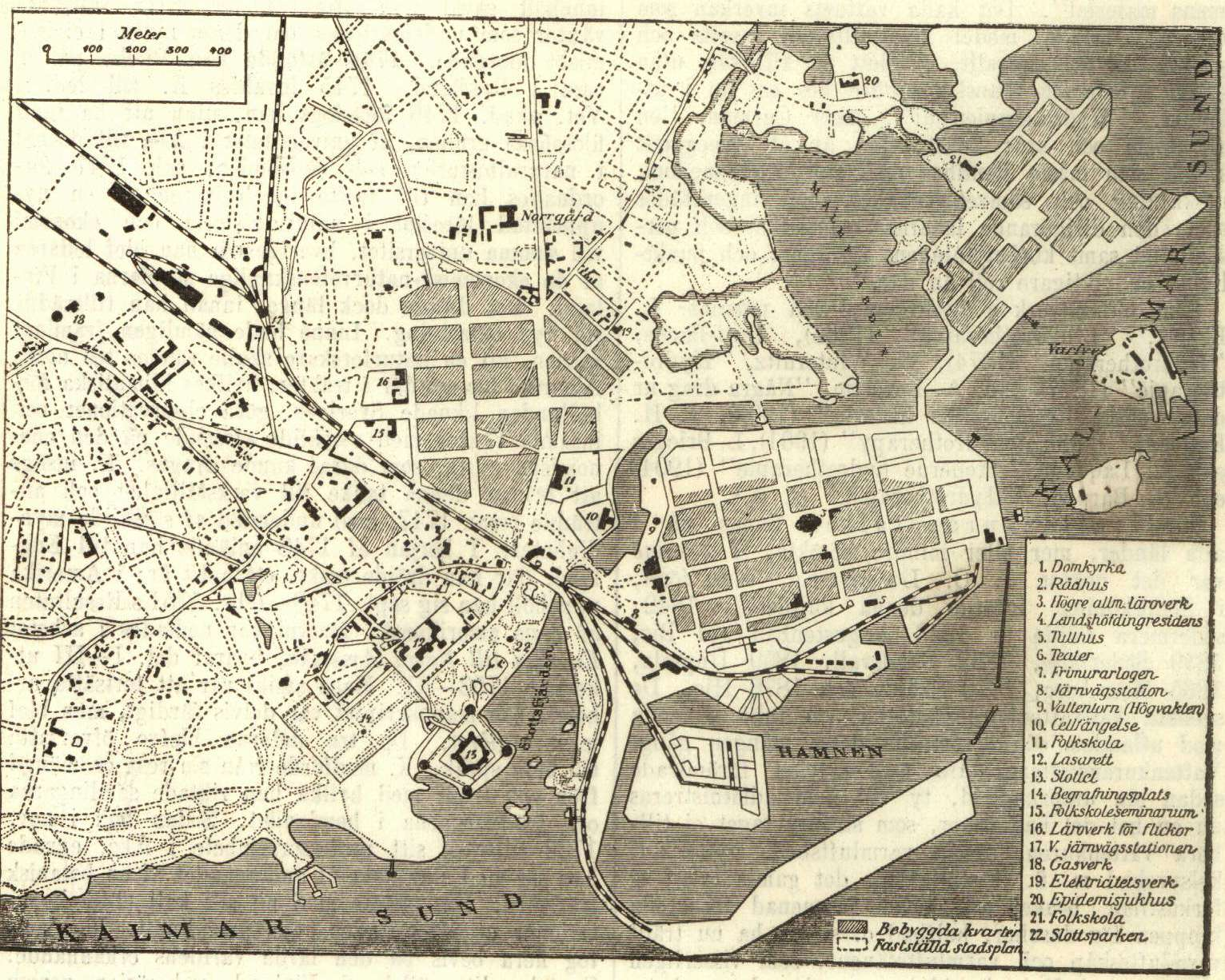 City map Kalmar, Sweden, about 1910